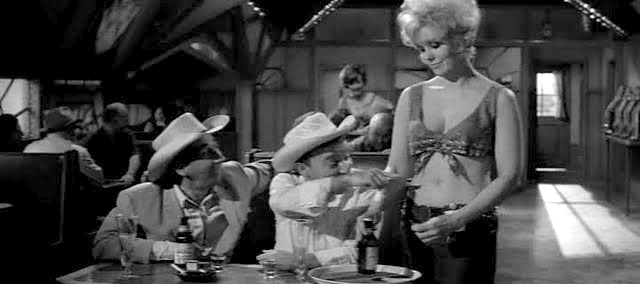 Screenshot from the original 1964 theatrical trailer for the film Kiss Me, Stupid